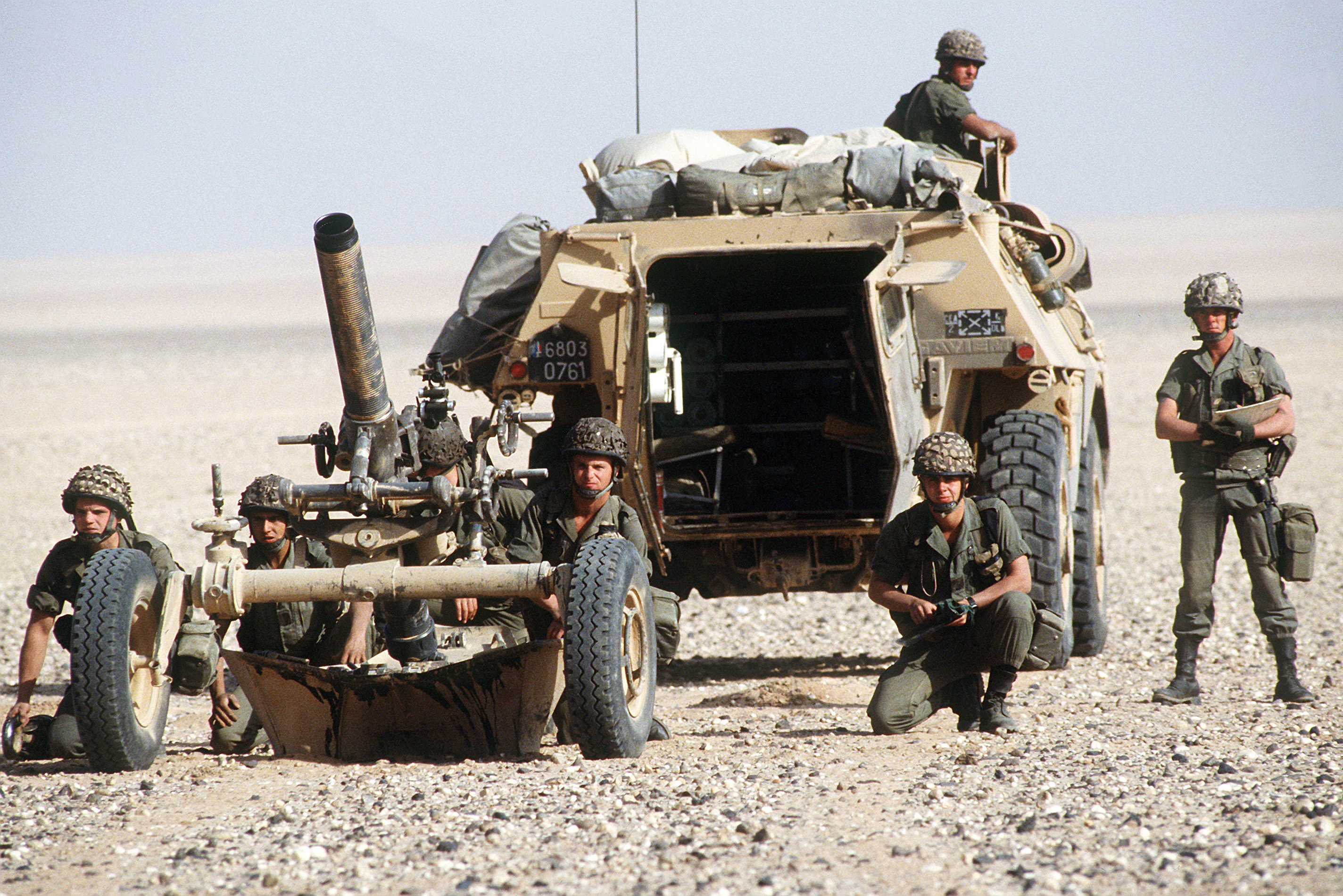 French soldiers of 2nd Foreign Infantry Regiment prepare to fire a 120mm MO-120-RT-61 rifled mortar as it stands in position behind a VTM 120 mortar towing vehicle. The equipment is part of a display of Allied armor and weaponry taking place during Operation Desert Shield.